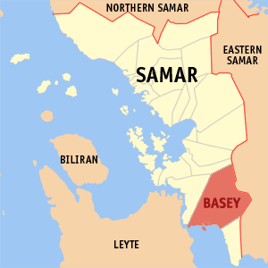 Map of Samar showing the location of Basey